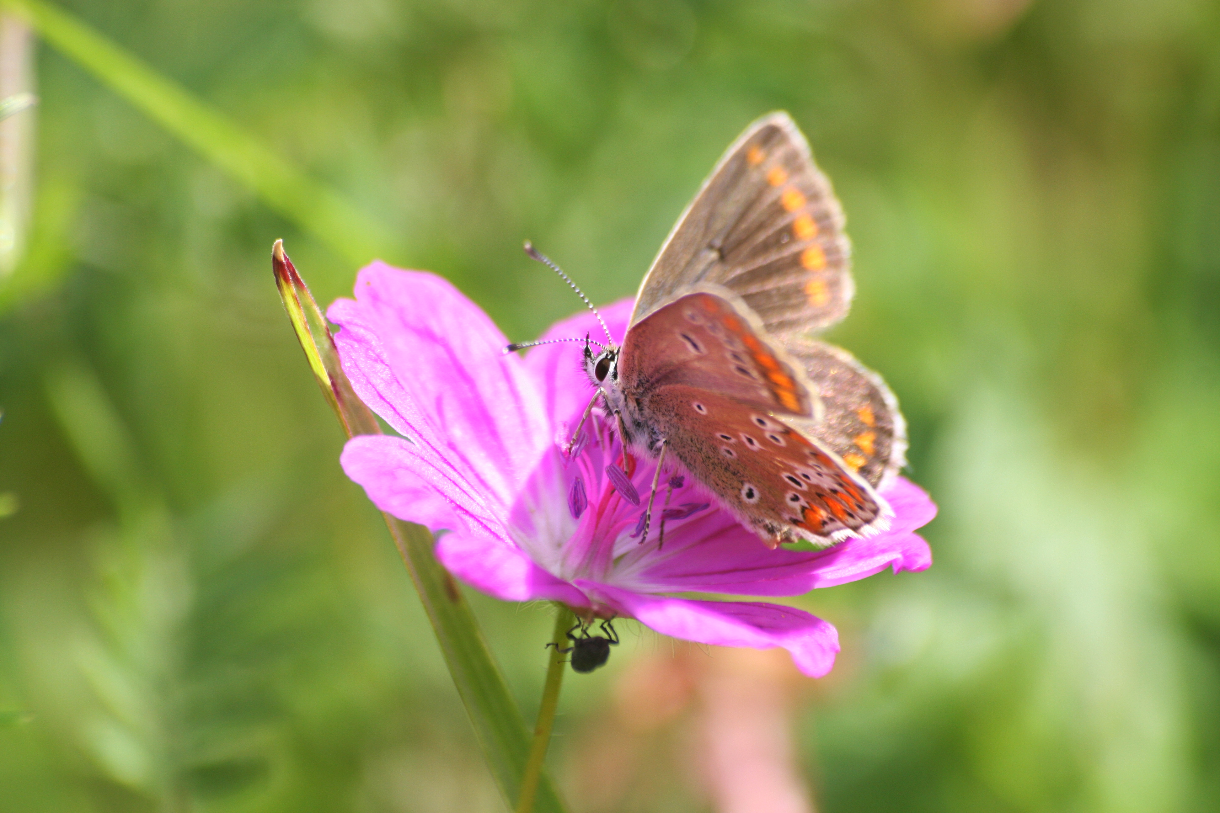 Butterfly in Ersvika bay area, municipality of Hurum in the central part of Oslofjord - east Norway. The habitat is a coastal coniferous forest (no: kystbarskog).